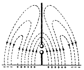 Electric field lines of radio waves emanating from a vertical quarter-wave monopole radio transmitting antenna over ground. This is a cross section through the three dimensional radiation pattern, which is symmetrical about the axis of the antenna. The waves of electric field lines spread out from the antenna at the speed of light. It can be seen that the maximum power is radiated in horizontal directions.